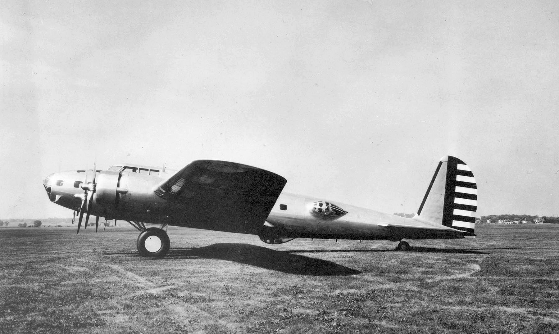 B-17B Flying Fortress USAF Museum Photo